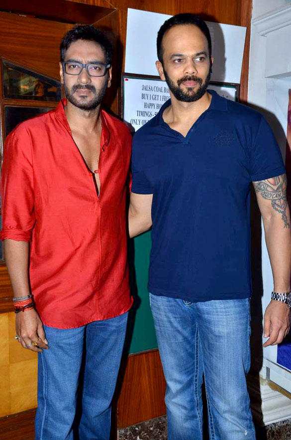 Ajay Devgn, Rohit Shetty 'Bol Bachchan' team on the sets of Taarak Mehta Ka Ooltah Chashmah